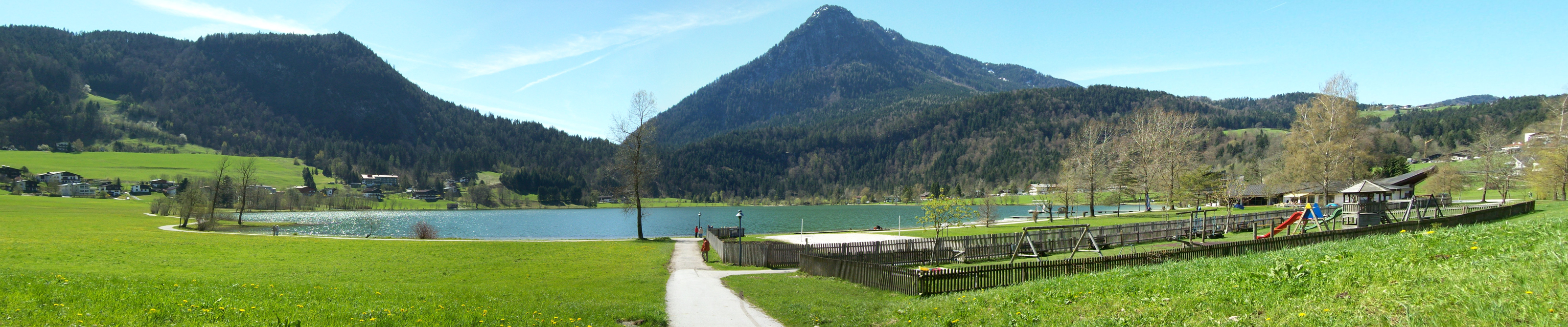 Panoramabild vom Thiersee in Tirol